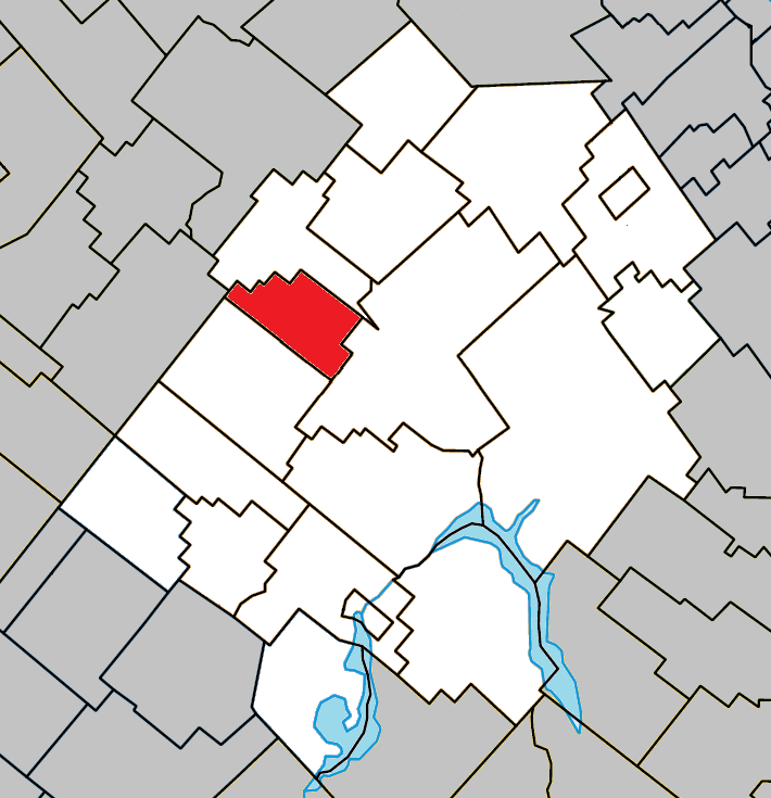 Location of Saint-Adrien-d'Irlande, Quebec within Les Appalaches Regional County Municipality.